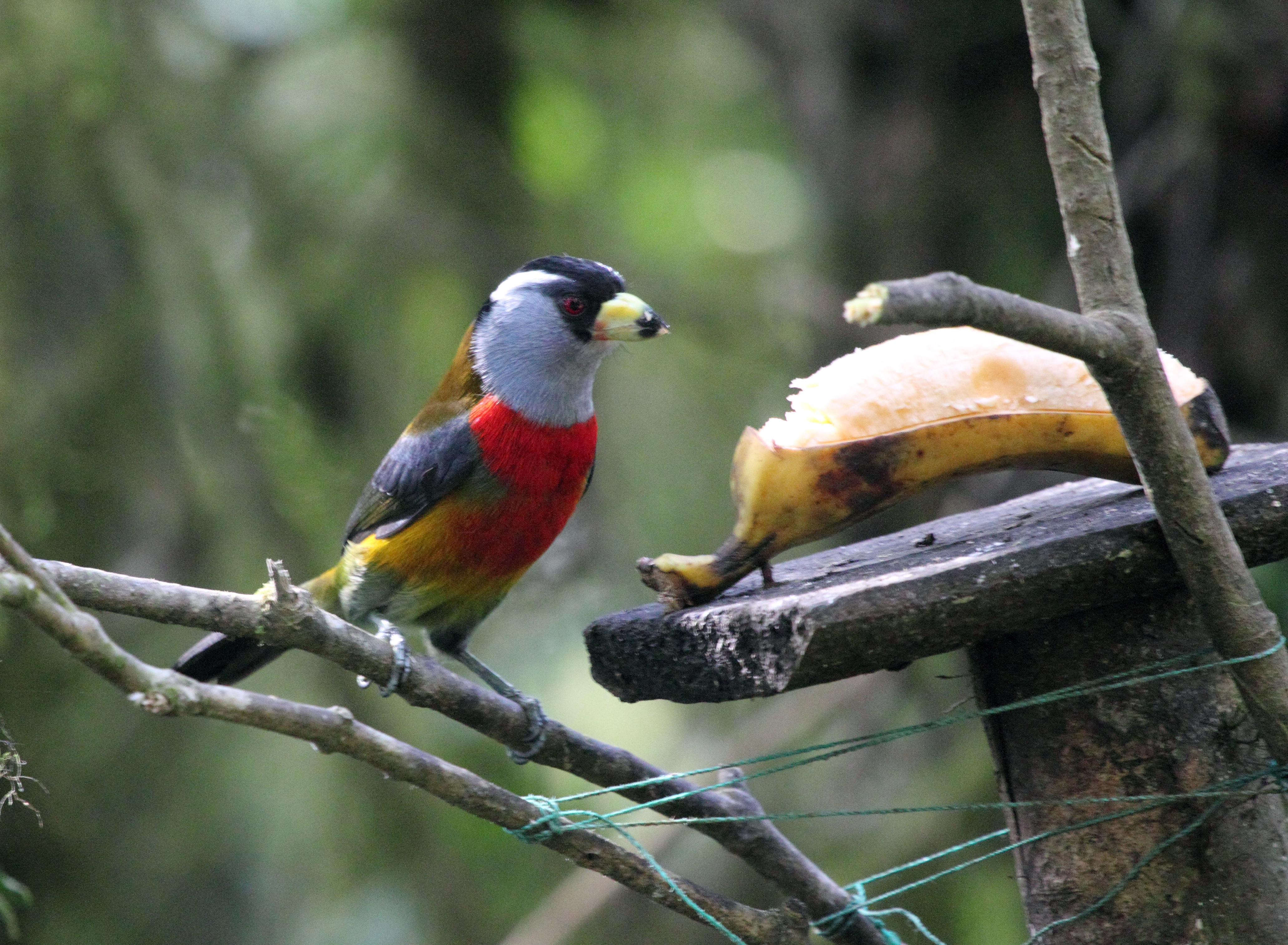 Toucan Barbet at a feeder at Refugio Paz de Las Aves near Mindo in Ecuador